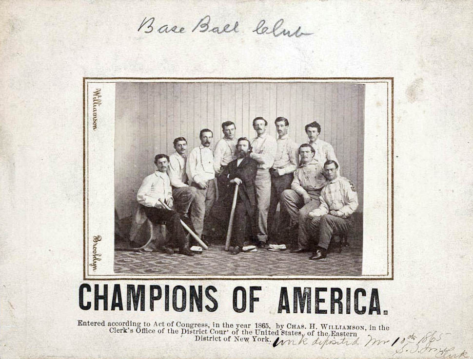 Early baseball card prototype showing ten members of the Atlantics of Brooklyn baseball club.